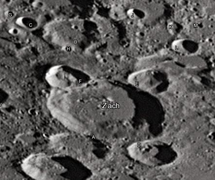 Zach lunar crater as seen from Earth with satellite craters labeled